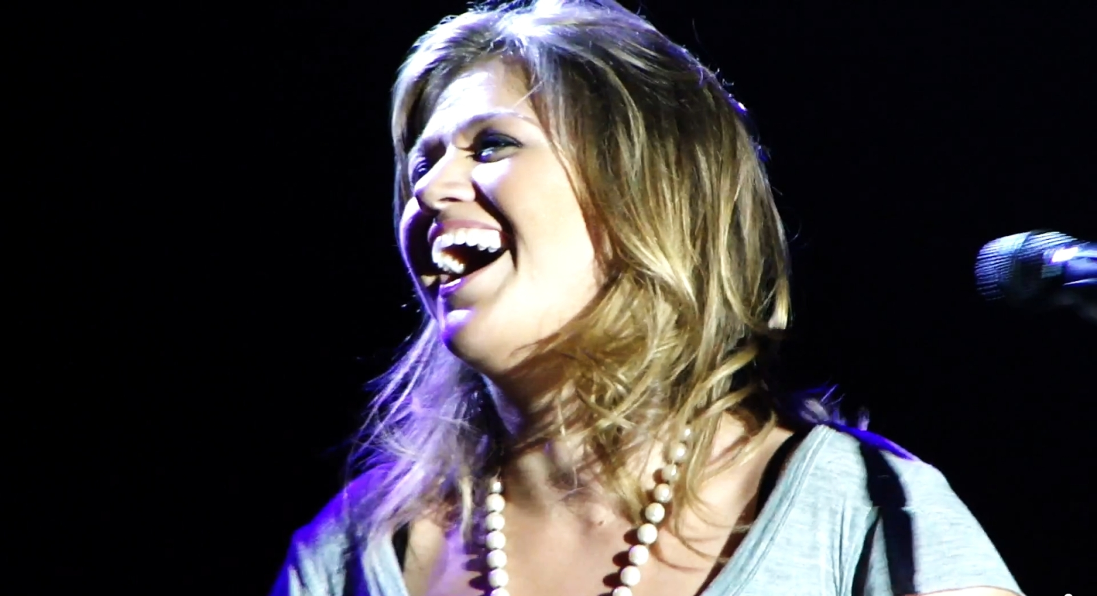 Kelly Clarkson live in Sudbury 2011